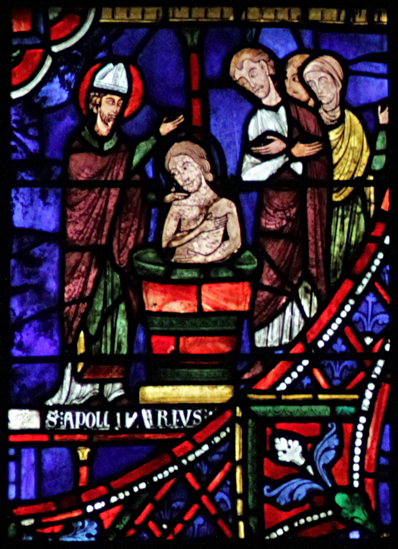 Fragment of File:Chartres 36 -Corrected.jpg - Life of St Apollinaris